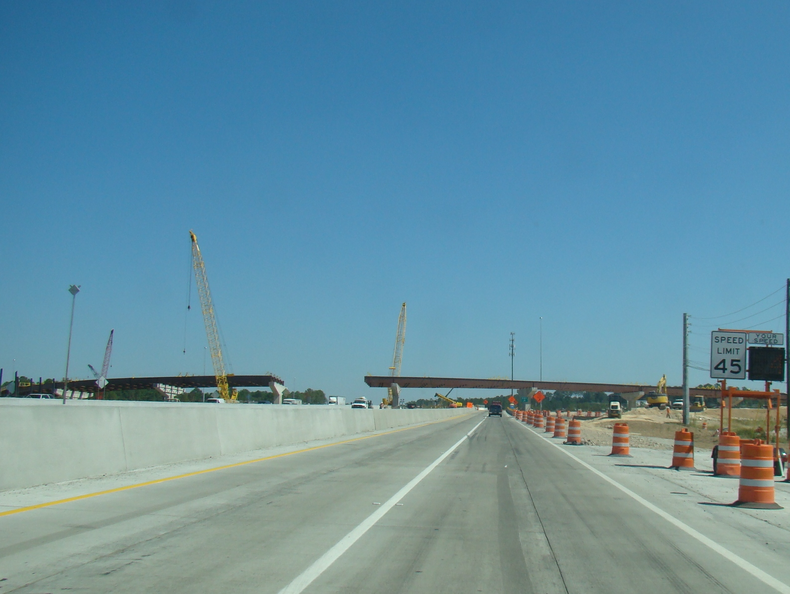 Augusta, Georgia, USA. Interstate 20 (Eastbound) at Interstate 520 (I-20 exits 196A-B) interchange, Flyover ramp construction for I-20 westbound to I-520 eastbound. Second flyover ramp from I-520 westbound to I-20 westbound to be built. Other keywords: interstate, roadwork, speed limit sign, radar, bridge, overpass, Bobby Jones Expressway (I-520) NOTE: This version is cropped from the original image at the Flickr address listed.